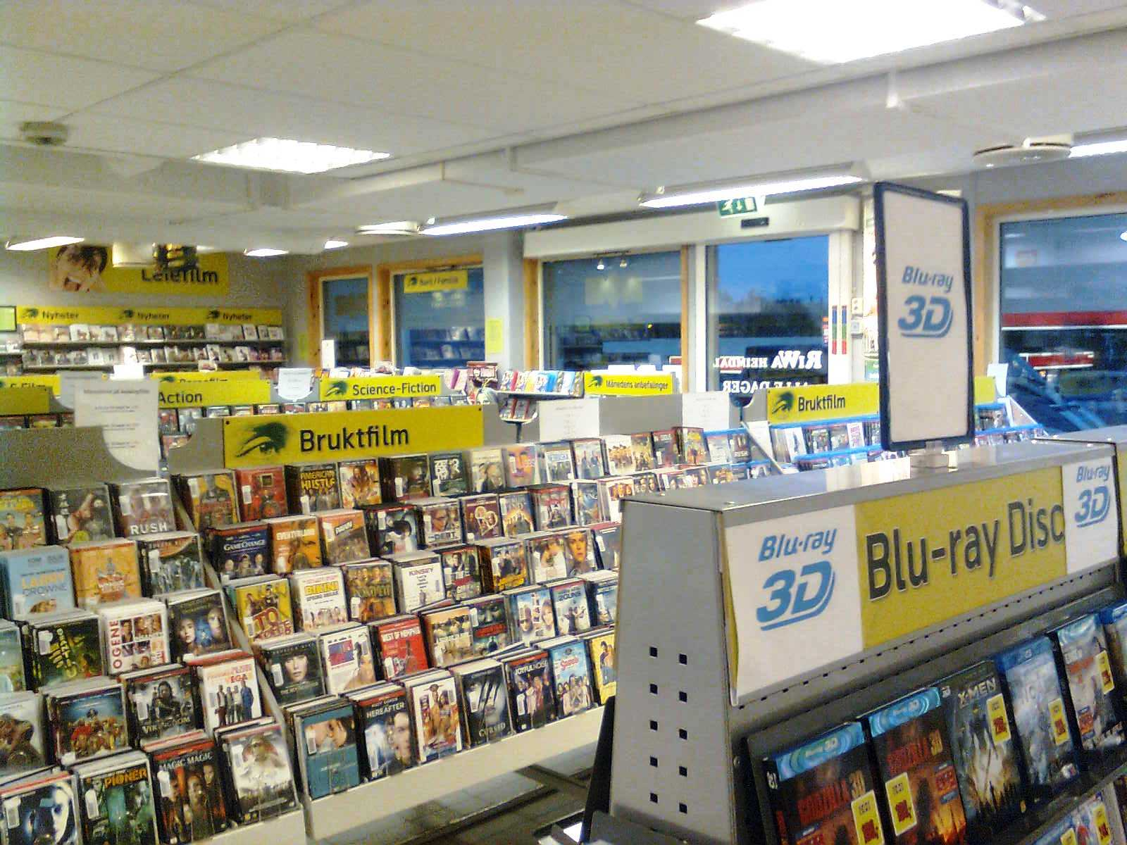 Riwa video in Heimdal, Trondheim (2014). It was the last video rental store in Trondheim. Closed in 2016.